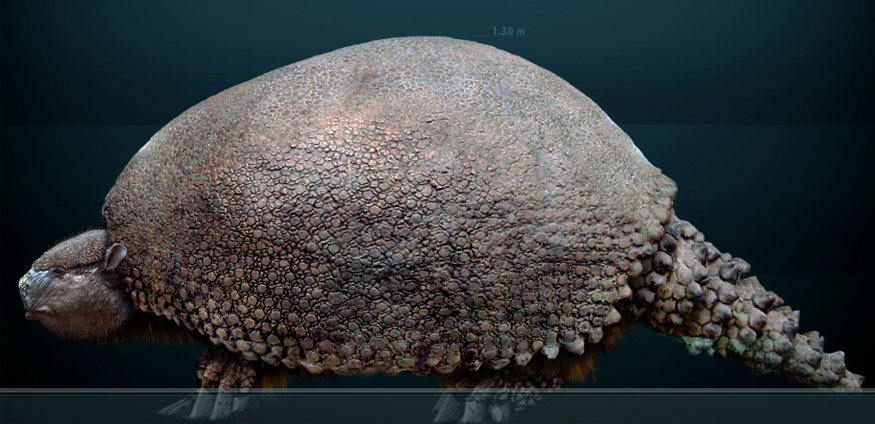 Artistic recreation of Glyptotherium